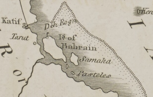 'A New Map of the Empire of Persia from Monsr. D'Anville, First Geographer to the most Christian King, with Several Additions and Emendations'